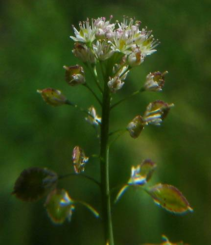 Thysanocarpus laciniatus at Circle X Ranch: Grotto trail, Santa Monica Mountains National Recreation Area, California, USA.